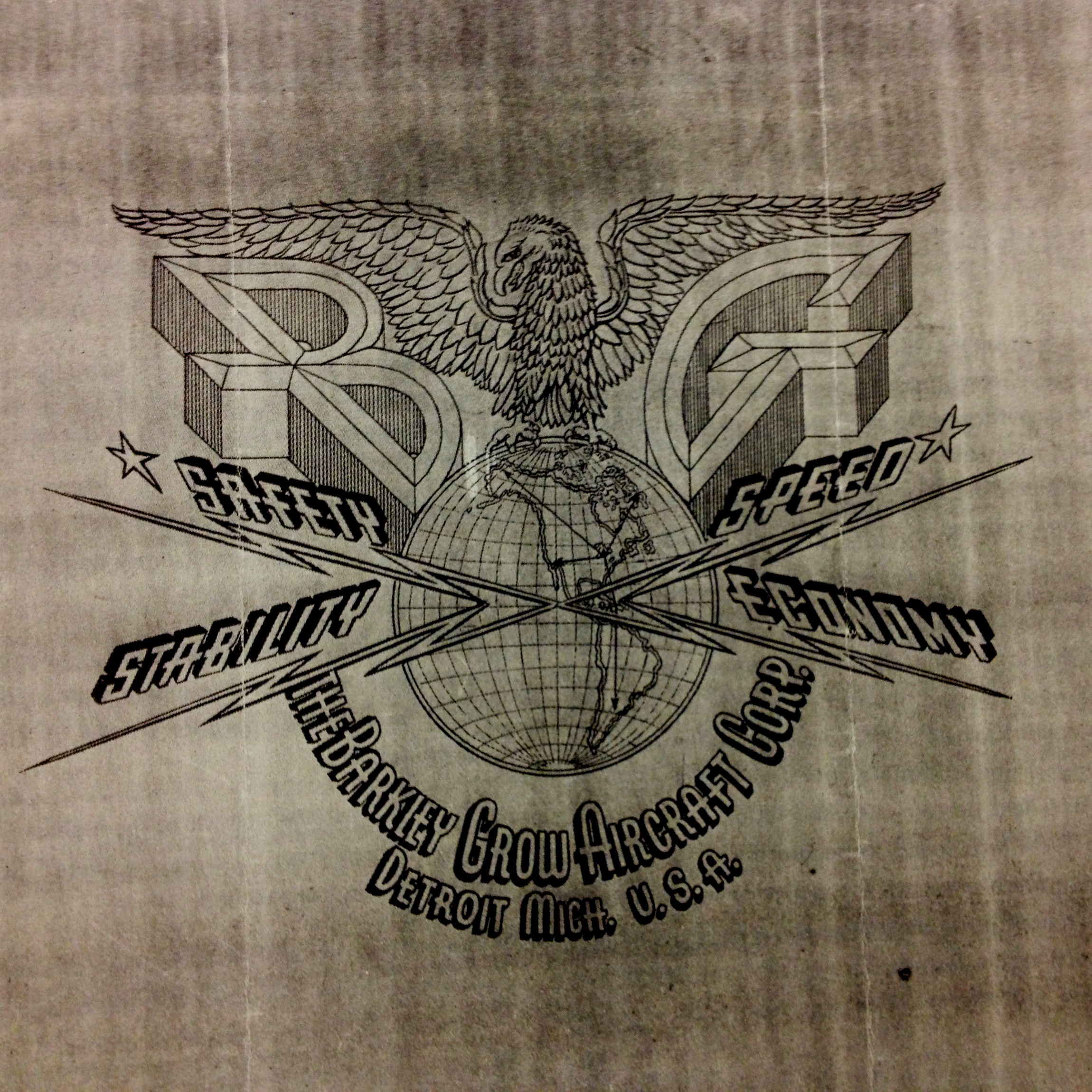 This is a photo I took of a document from the Calgary Aerospace Museum showing the company logo of the Barkley Grow Aircraft Corporation of Detroit Michigan.